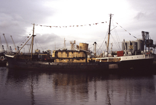 SS Explorer, Leith Docks I believe I've got the position about right by using the satellite to line up the two blocks of flats, the building with the square tower and flags and the quayside. The three cranes to the left can also be identified from their shadows and the tanks to the right are also identifiable. This took well over 30 minutes. The vessel is a steam powered fisheries research ship and a small group is struggling to save her for posterity.